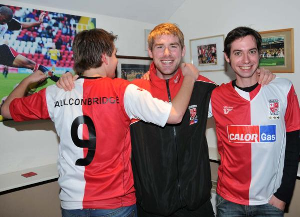 The Dutch Cards met hun favoriete (inmiddels ex-)speler Craig Faulconbridge.